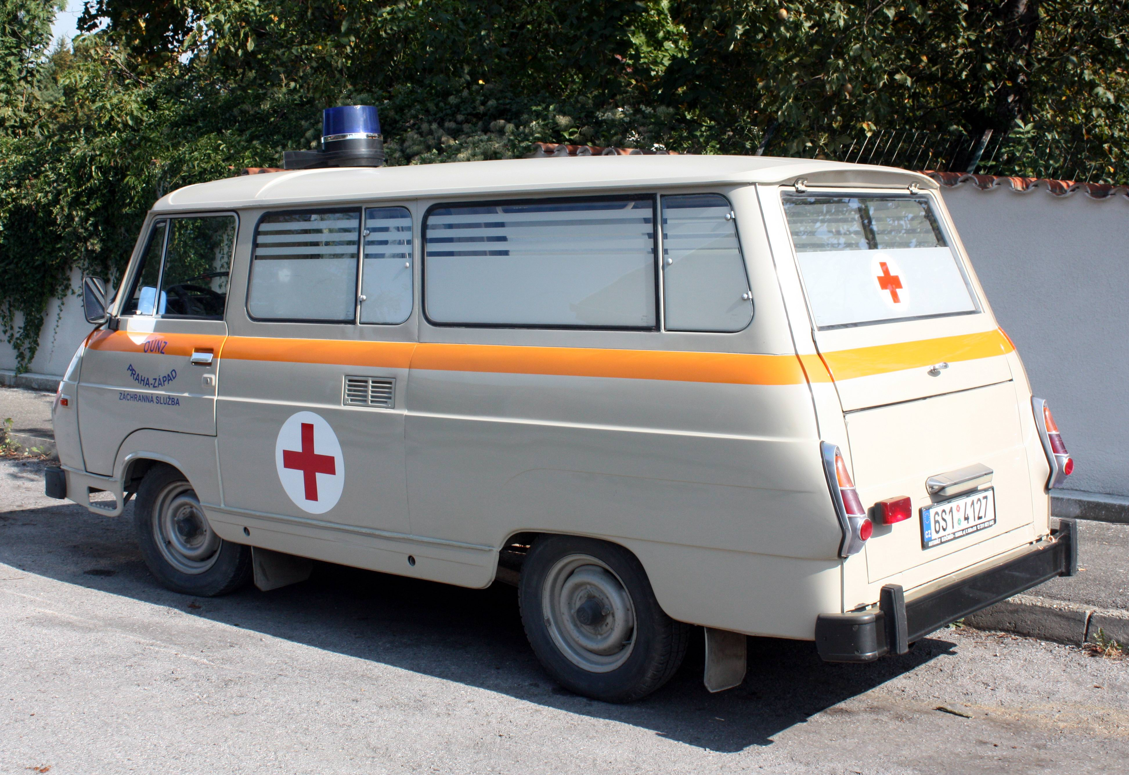 Škoda 1203 ambulance as it looked in the 80s in Řevnice, September 2009 Czechia.